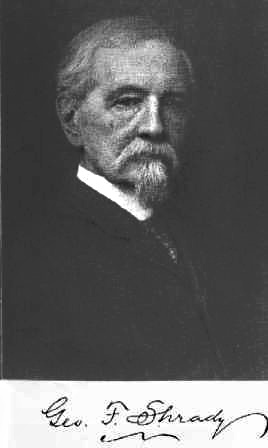 Portrait of Dr. George Frederick Shrady, who passed away in 1908.